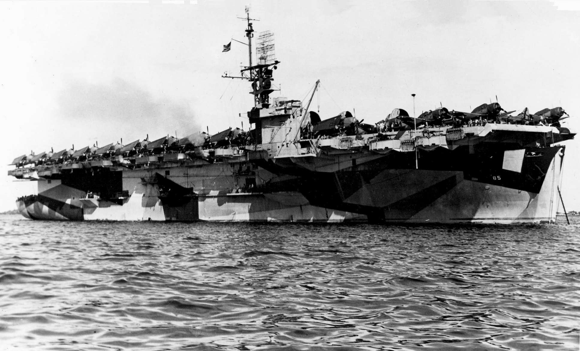 USS Shipley Bay (CVE-85) at anchor off Majuro Atoll, 18 May 1944. She had just arrived from the West Coast of the United States with a deck load of replacement aircraft destined for the occupation of the Marshall Islands. Her camouflage, Measure 32 Design 15A, is still in good condition.